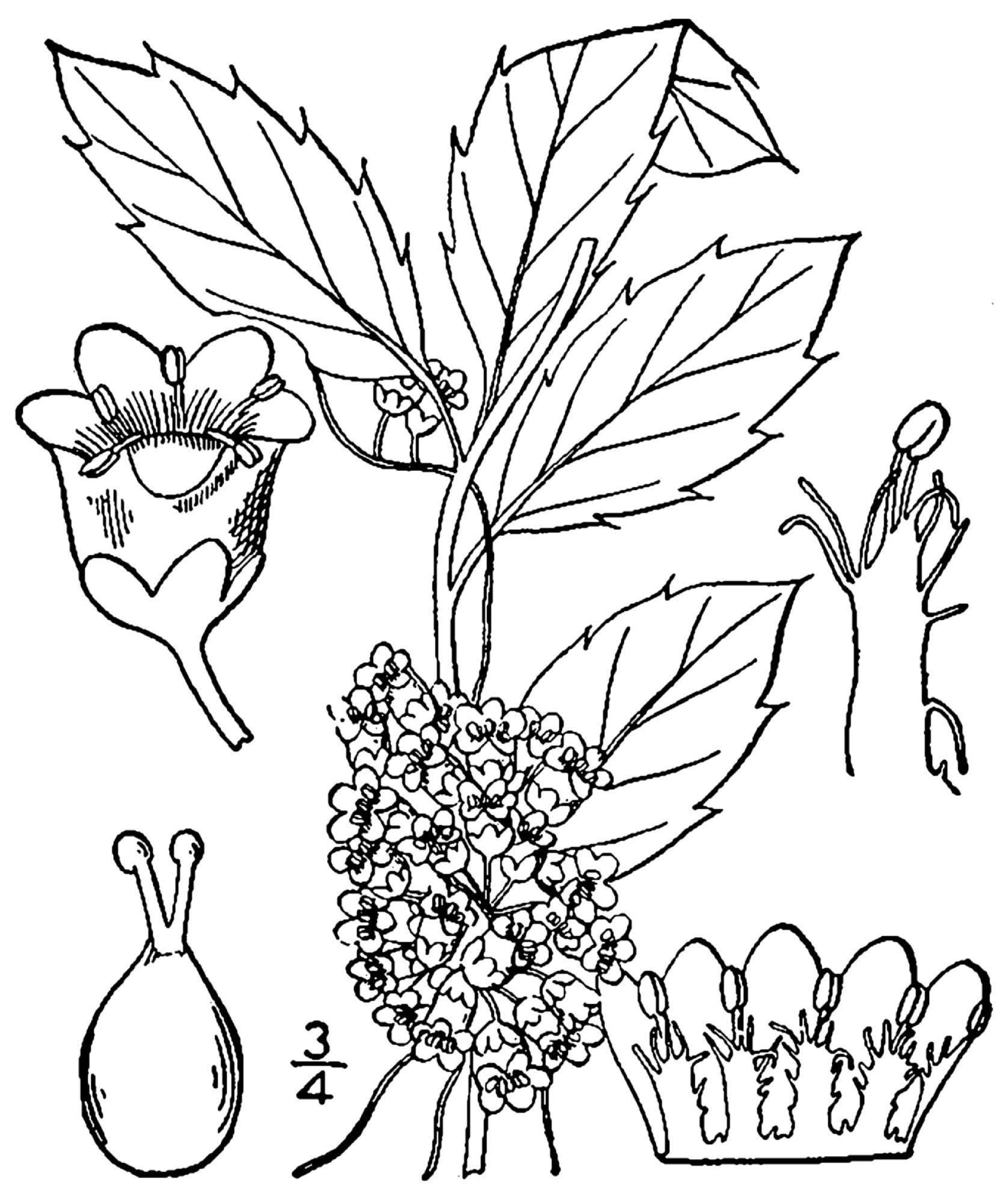 Cuscuta gronovii